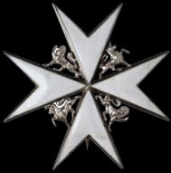 Star of a Knight or Dame of Grace or Justice of the Most Venerable Order of the Hospital of St. John of Jerusalem.